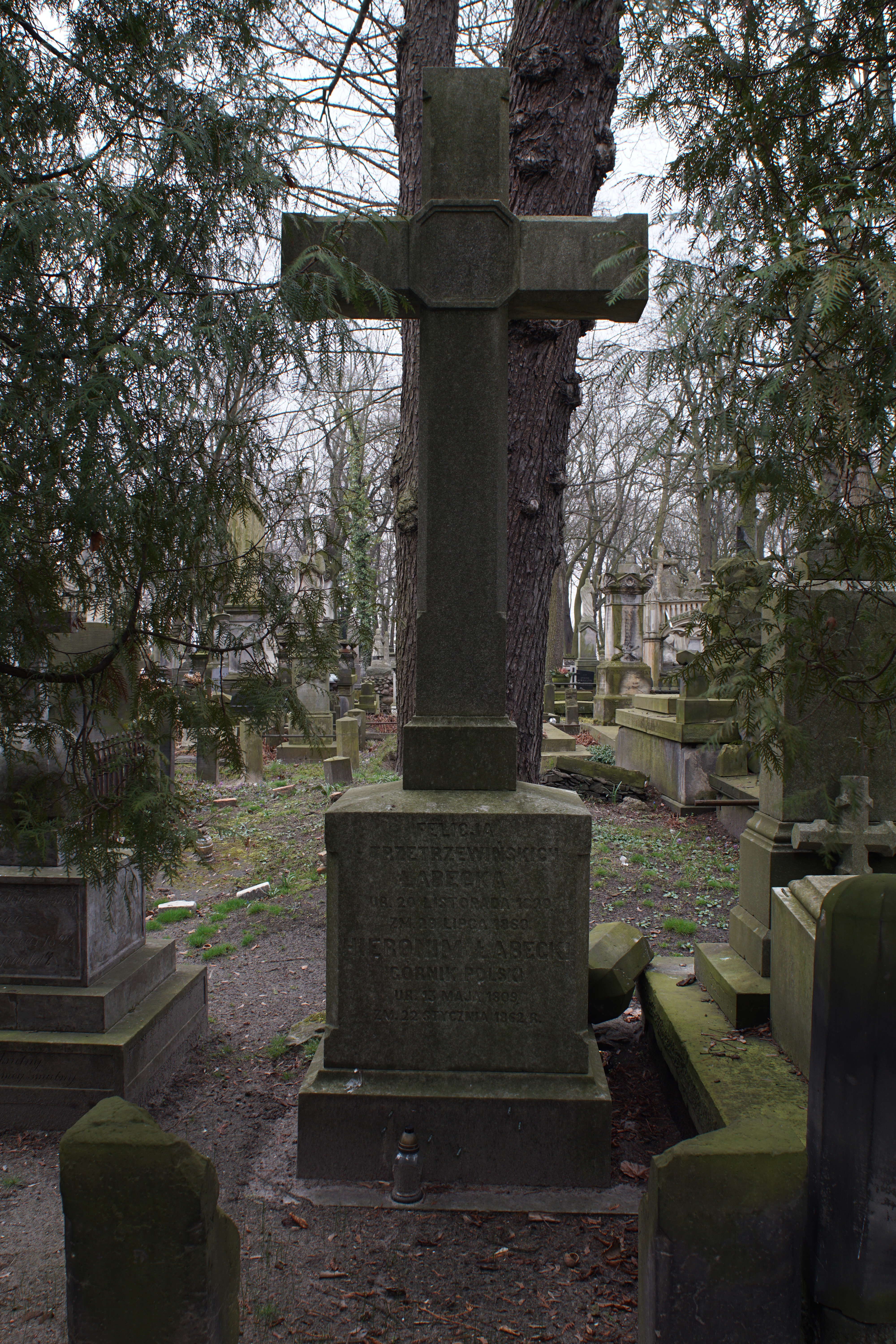 The grave of Hieronim Hilary Łabęcki at the Powązki Cemetery (section 8, row 8, grave 10)